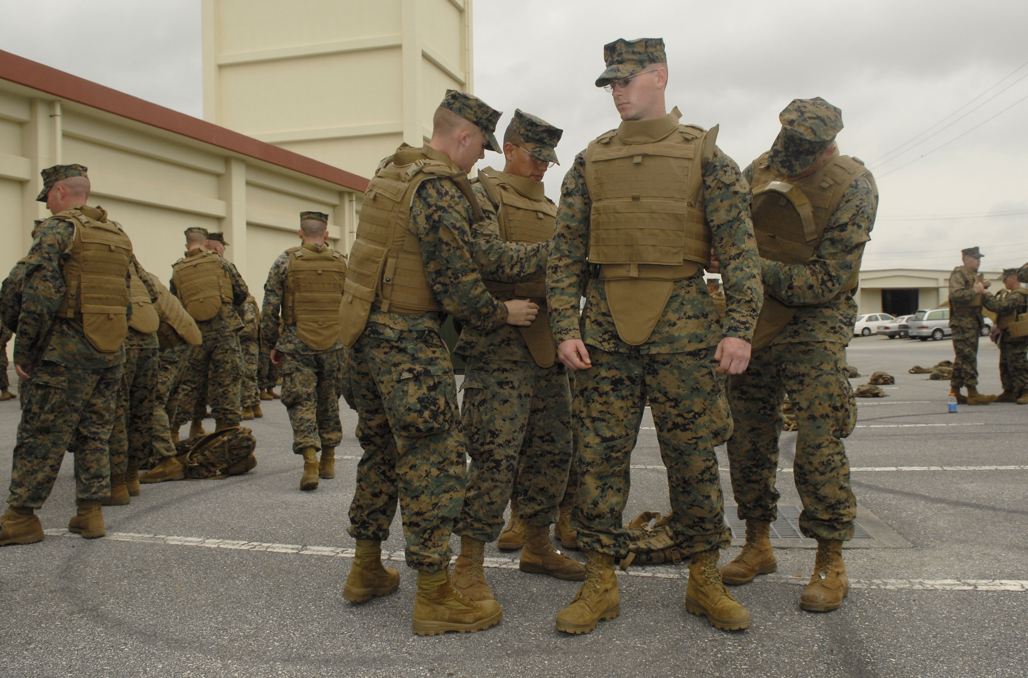 Marines with Security Company, Combat Logistics Battalion 4, Combat Logistics Regiment 3, 3rd Marine Logistics Group, adjust Lance Cpl. Andrew Best’s Modular Tactical Vest before vest trainers inspect configurations. It takes about three hours to train Marines to configure, wear and care for the MTV. Photo ID: 2007451233 Submitting Unit: MCB Camp Butler